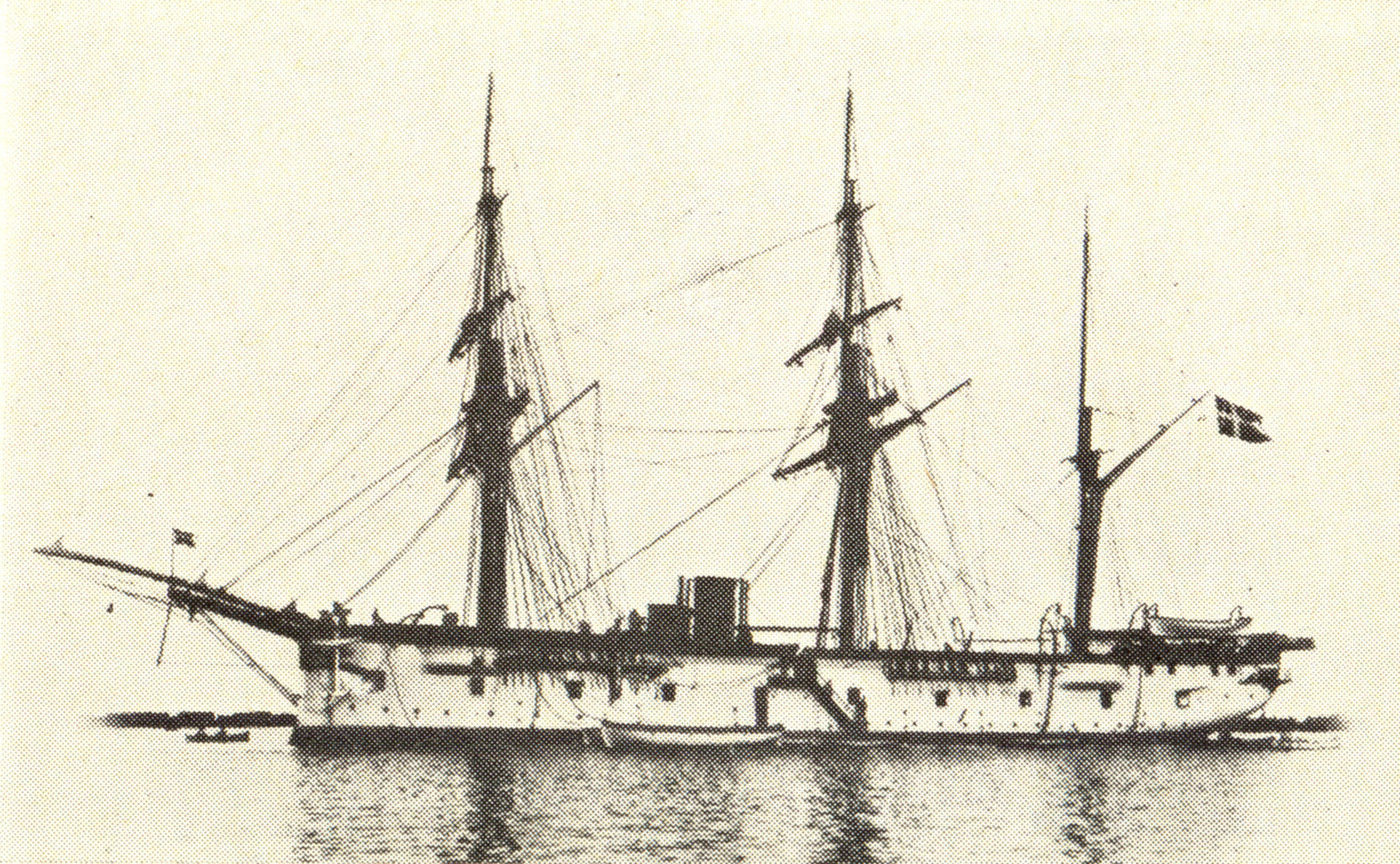 Danish Cruiser Fyen at Algiers 1898